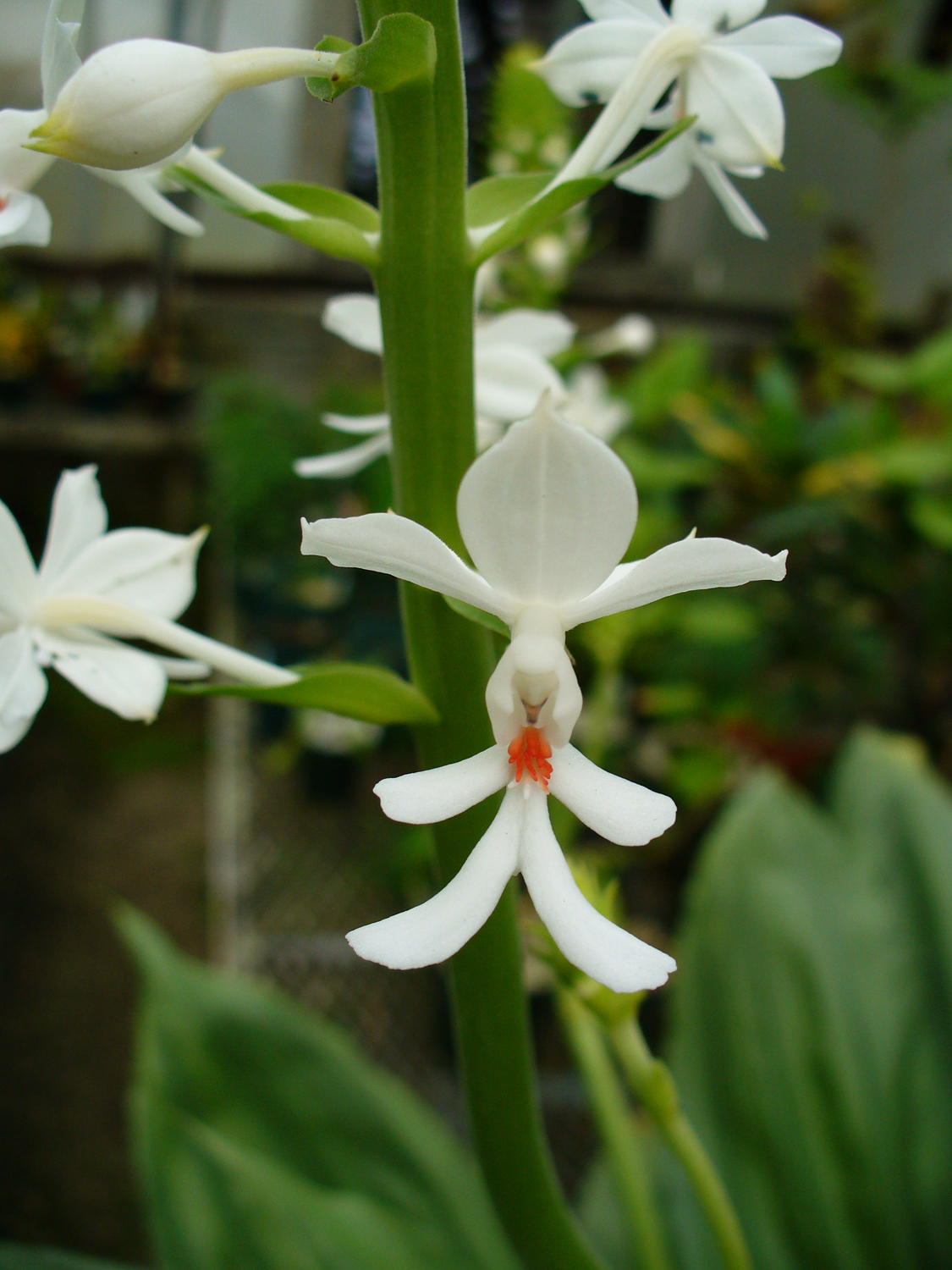 Calanthe triplicata. Biological Sciences Dept. greenhouse, Florida International University, Miami, USA